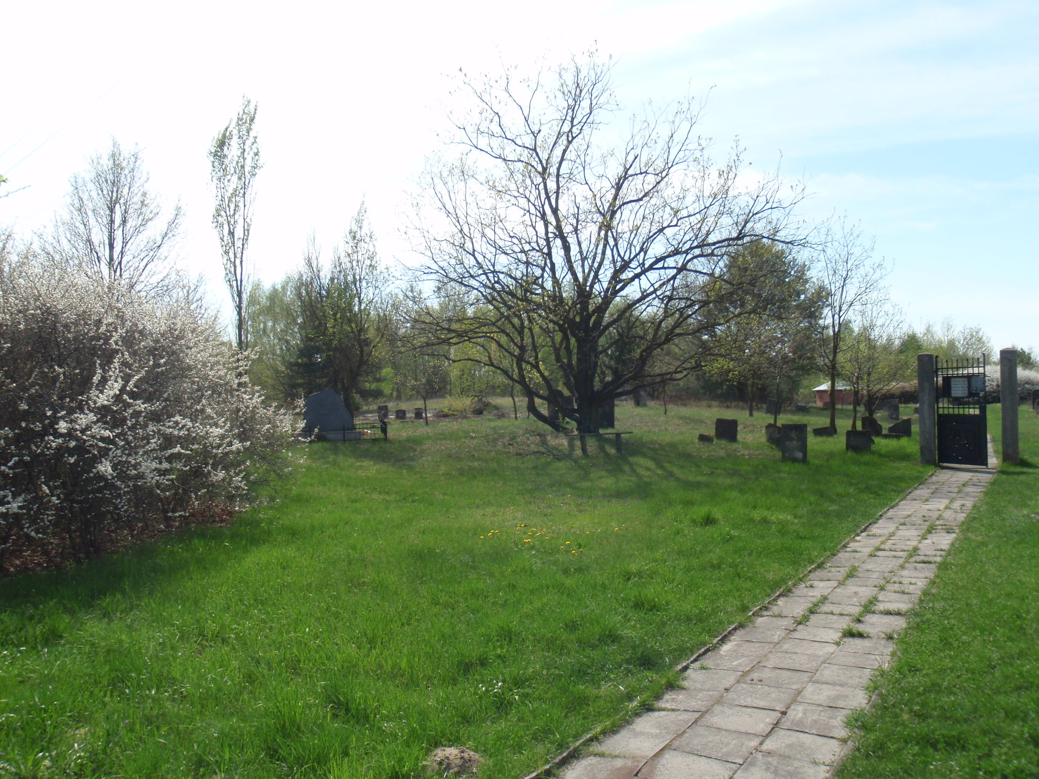 Jewish cemetery in Góra Kalwaria (Ger)